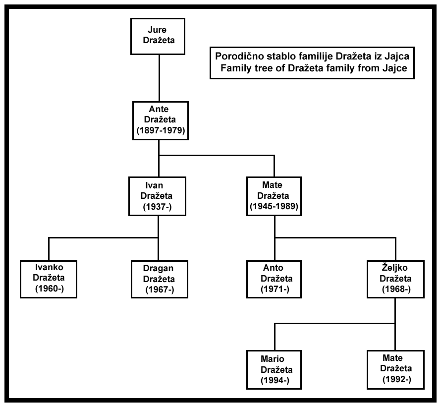 Porodično stablo familije Dražeta iz Jajca. / Family tree of Dražeta family from Jajce. Ja sam autor. / I am author.